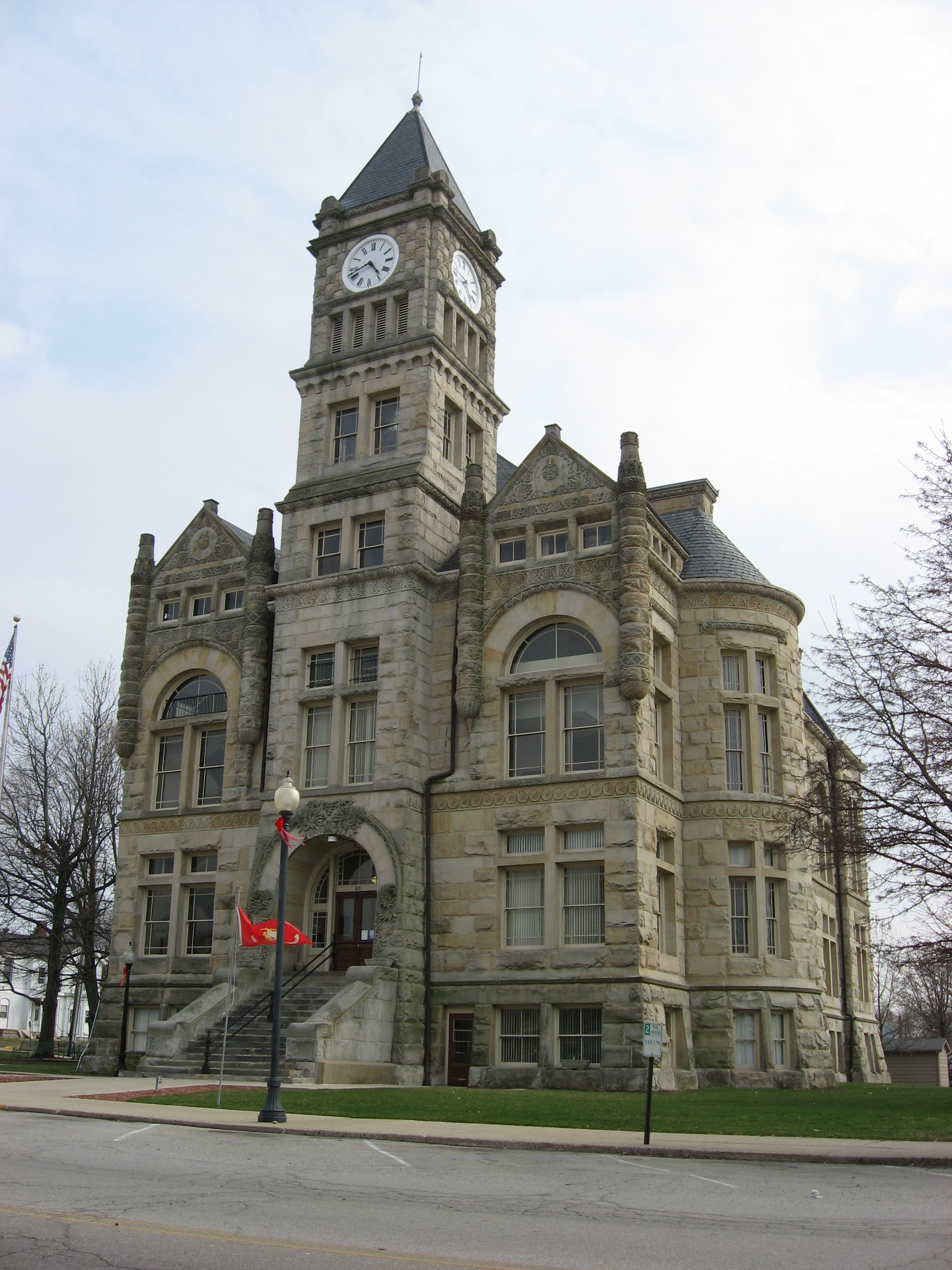 Front of the Union County Courthouse, located on Courthouse Square in downtown Liberty, Indiana, United States. Built in 1890, it is listed on the National Register of Historic Places.